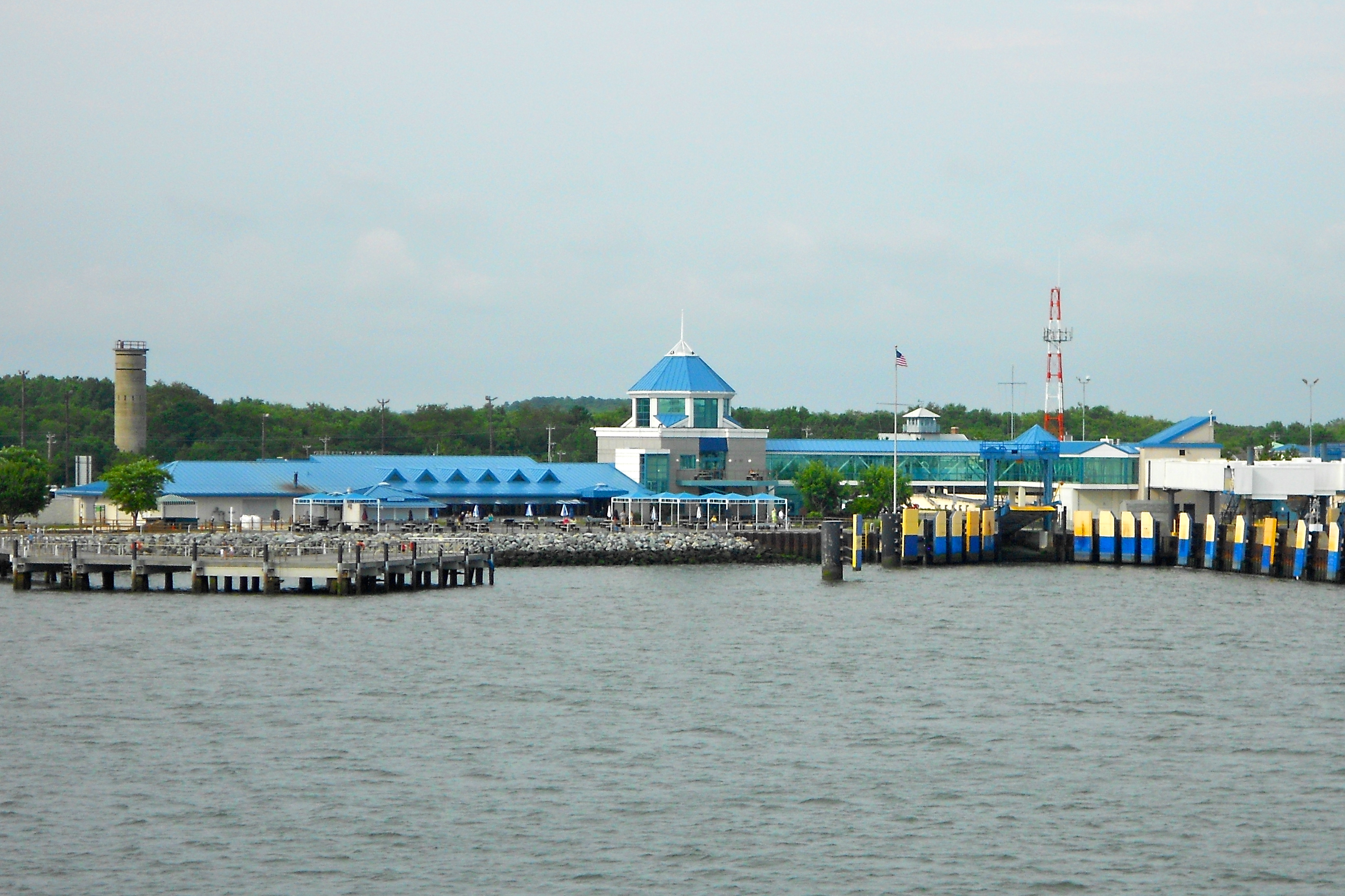 The port in Lewes, Delaware. Eastern end of the Cape May-Lewes Ferry